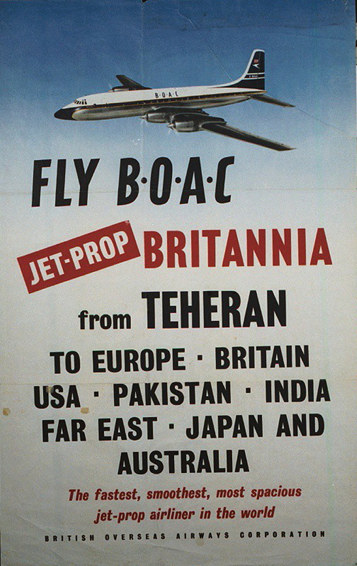 Poster from the Don Thomas Collection. Mr. Thomas was a collector of aircraft memorabilia who donated several posters to the San Diego Air and Space Museum. Repository: San Diego Air and Space Museum Archive